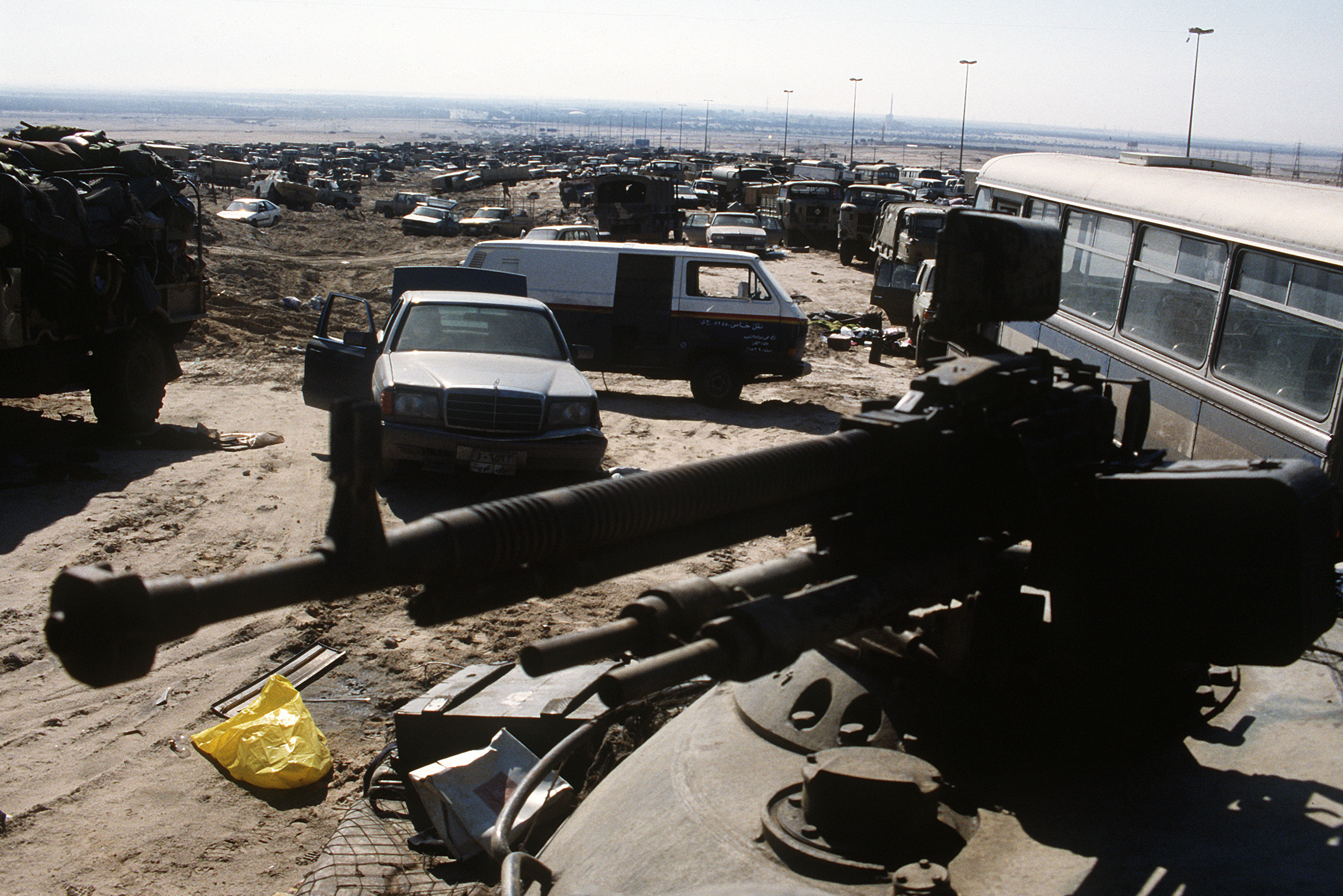 Abandoned cars and trucks clog the Basra-Kuwait Highway out of Kuwait City after the retreat of Iraqi forces from the city during Operation Desert Storm. The heavy antiaircraft machine gun mounted on top of a turret of a tank is either a DShKM or a Type 54. Depending on which of the aforementioned HMGs it is, the tank can either a T-54 or T-55 (DShKM) or Type 59 or Type 69 (Type 54).